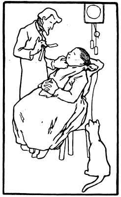 Illustration by Otto Ubbelohde to the fairy tale The Story of Schlauraffen Land